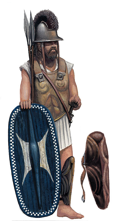 Illyrian King or Noble,500 BC - 100 BC.(The sketch was part of a study for a publication but the project has been cancelled)